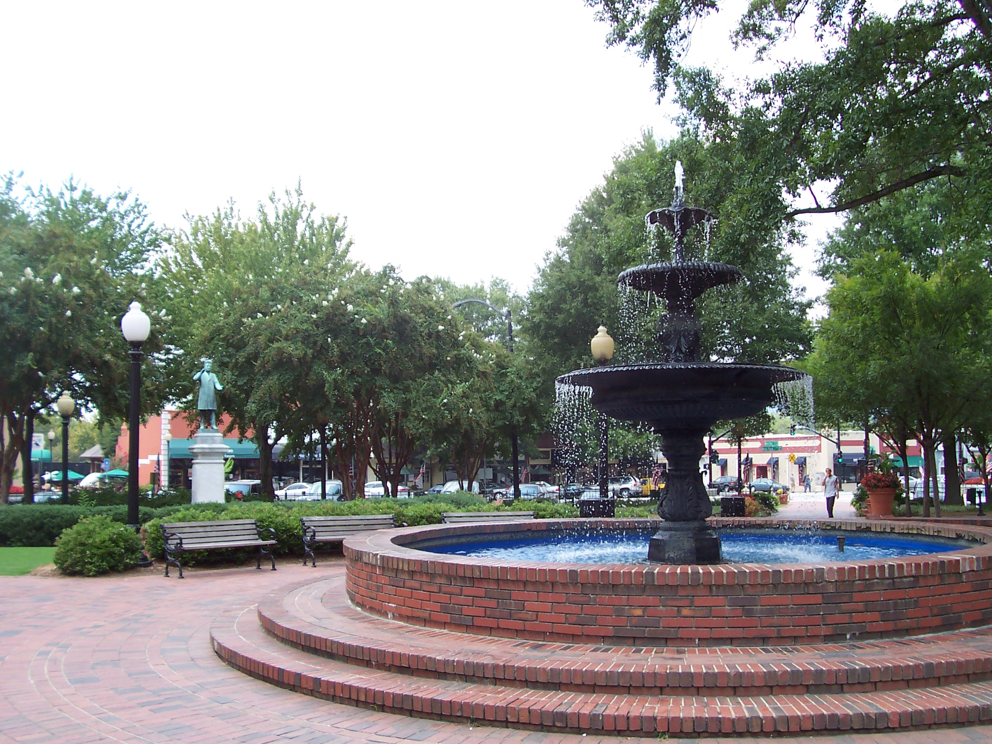 Marietta, Georgia. Taken from Glover Park in the town square, September 2006.